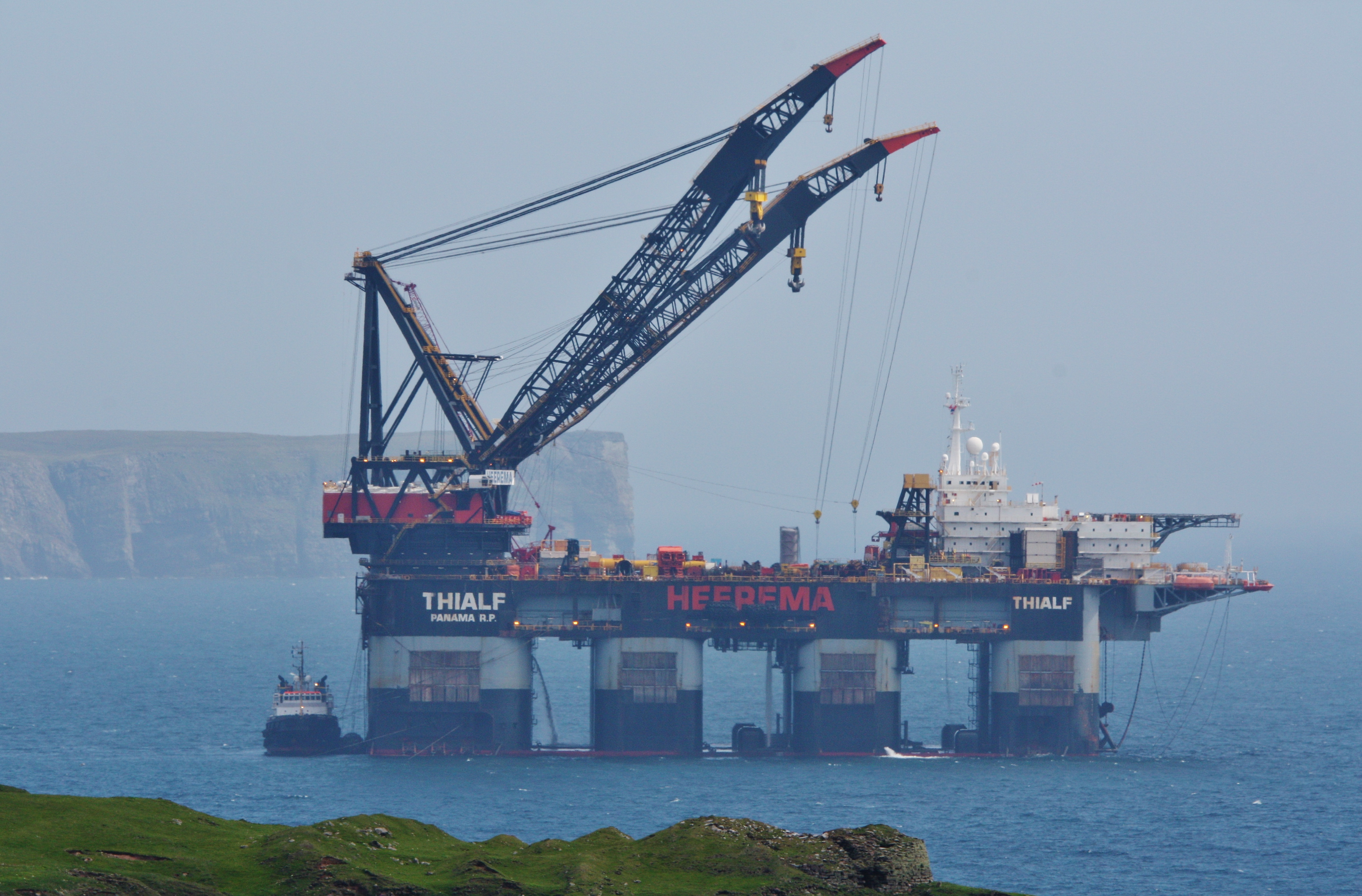 As seen from Brindister looking towards The Bard, Bressay